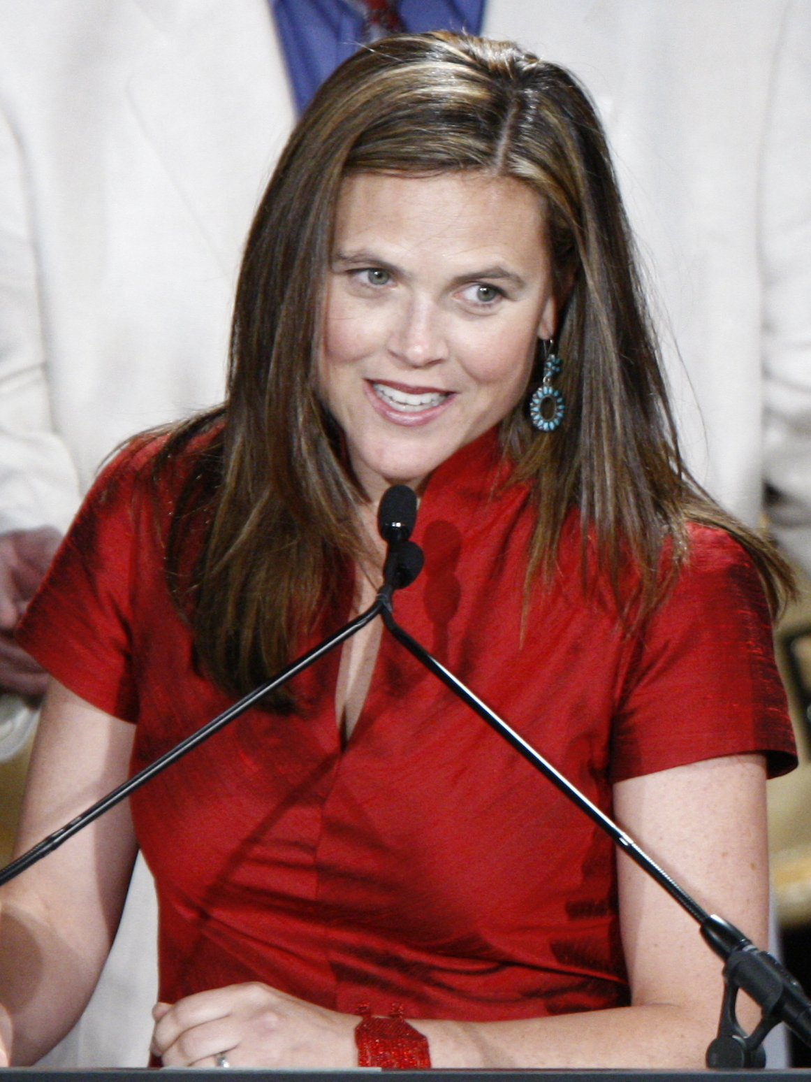 PHOTO CREDIT: ANDERS KRUSBERG / PEABODY AWARDS Paul Taylor, Irene Taylor Brodsky, Sally Taylor, Crofton Diack and Geof Diack 69th Annual Peabody Awards Luncheon Waldorf=Astoria Hotel New York, NY USA May 17, 2010